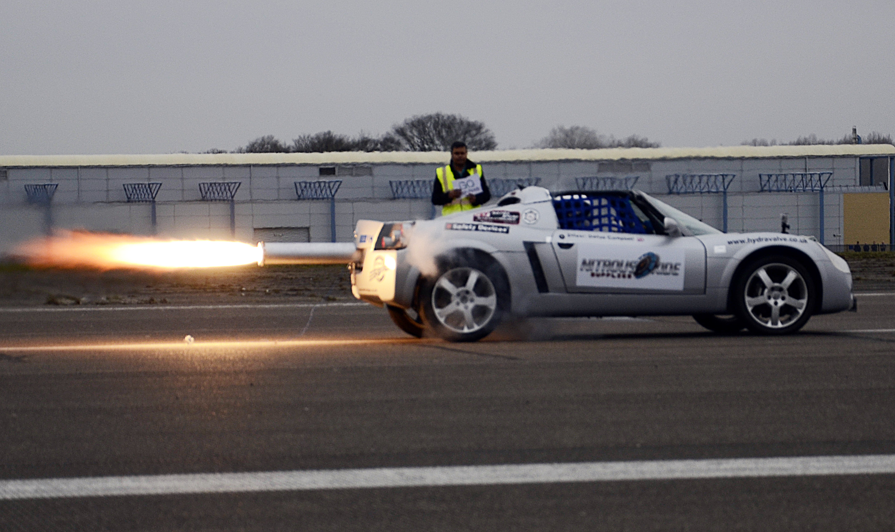 Rahul Kundu, one of the students who designed the rocket motor, holds the ‘Go’ board